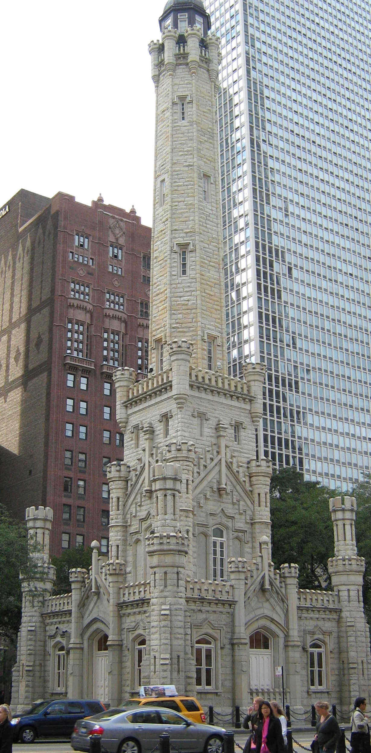 The Chicago Water Tower and Pumping station building in Chicago, Illinois. It is the second-oldest water tower in the United States.